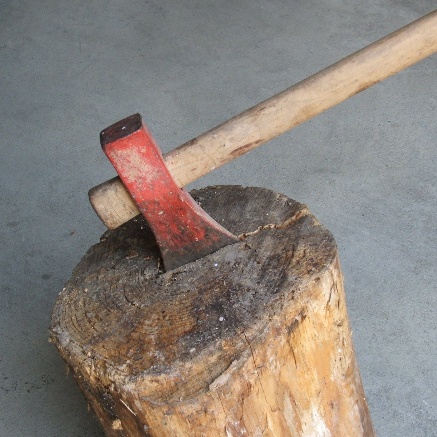 Axe splitting a log